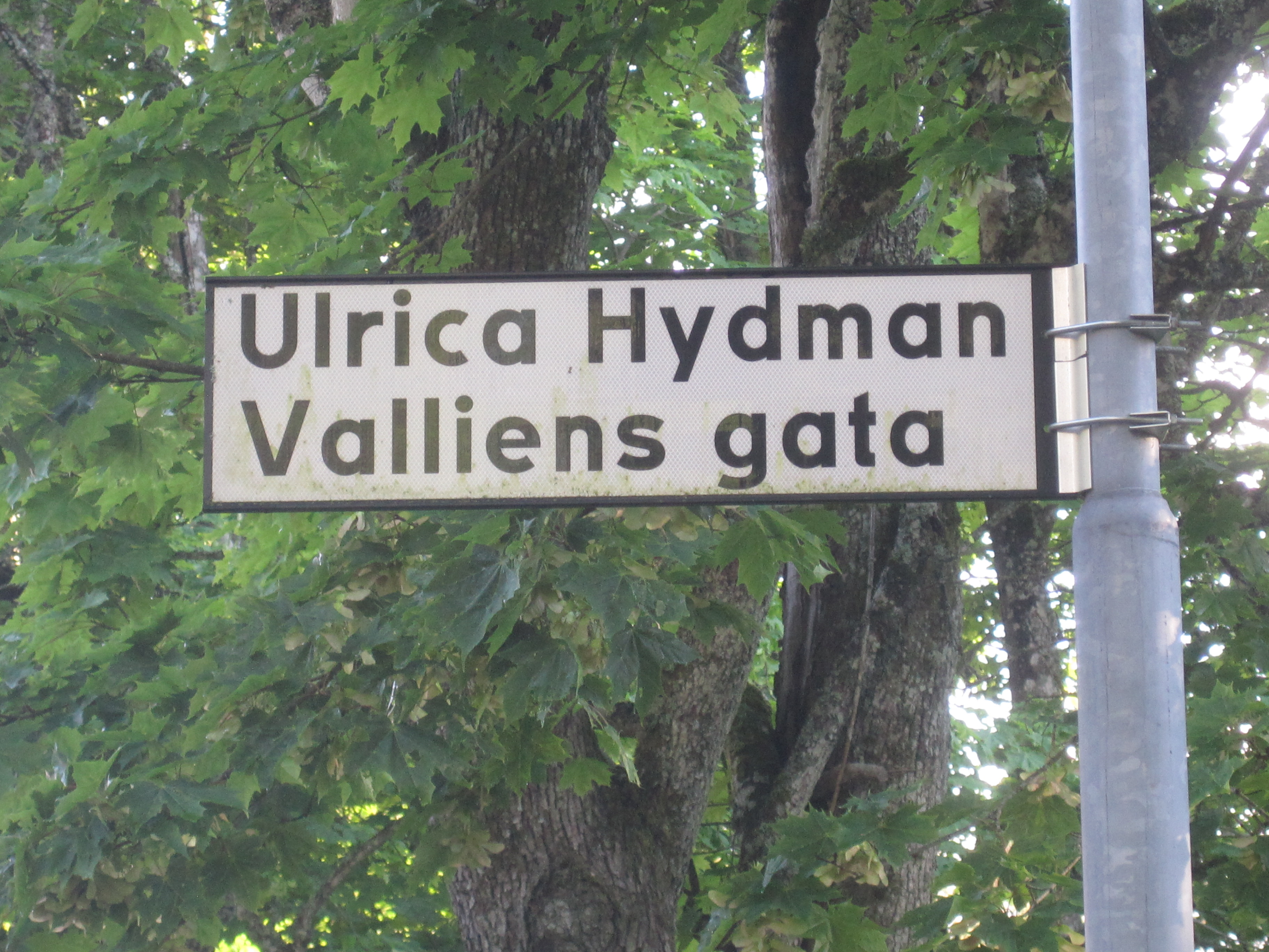 Street sign at a street in Åfors, Sweden, named after glass designer Ulrica Hydman-Vallien.